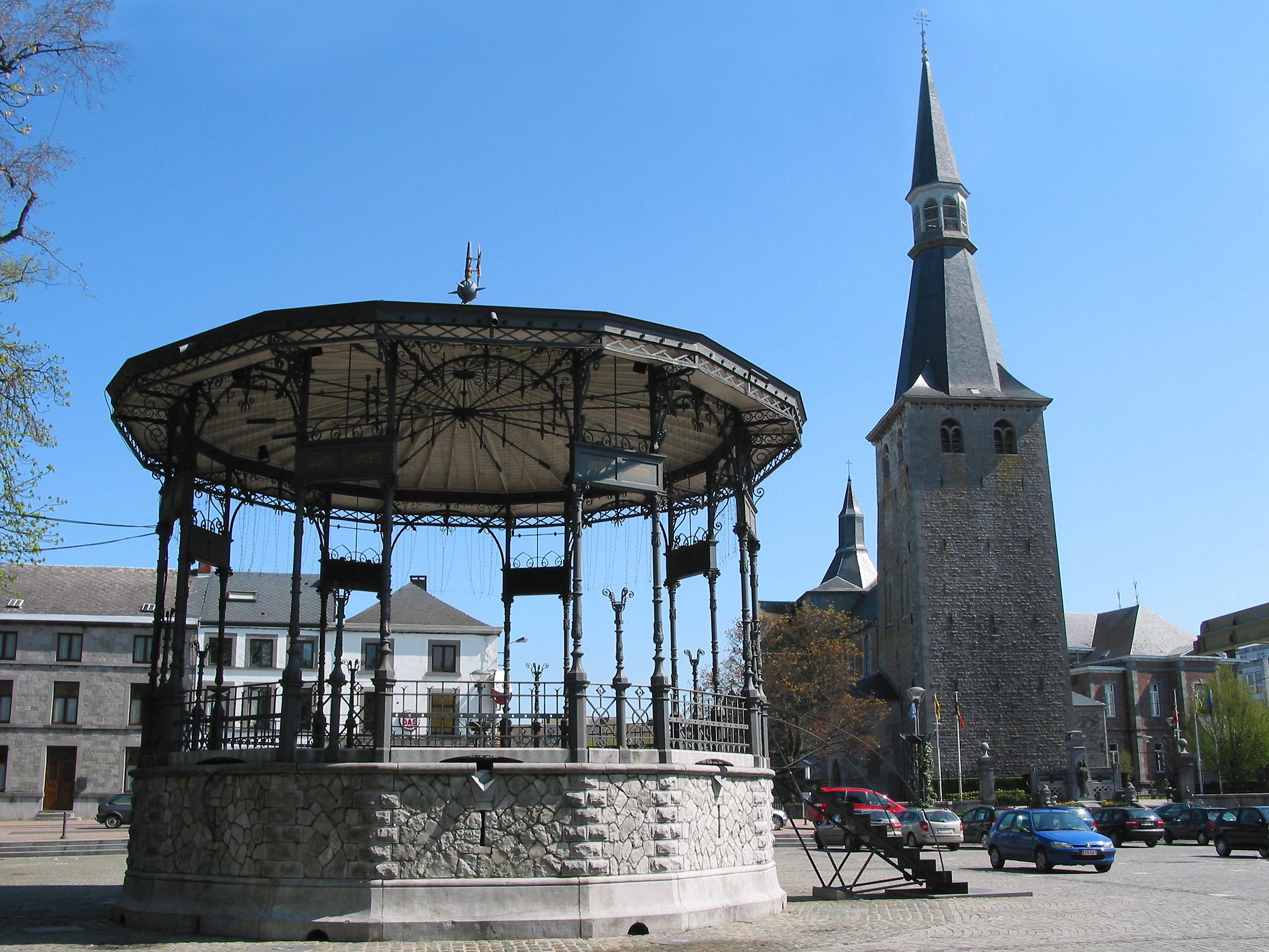 Ciney, the Monseu Place, the bandstand and the St. Nicolas' church.